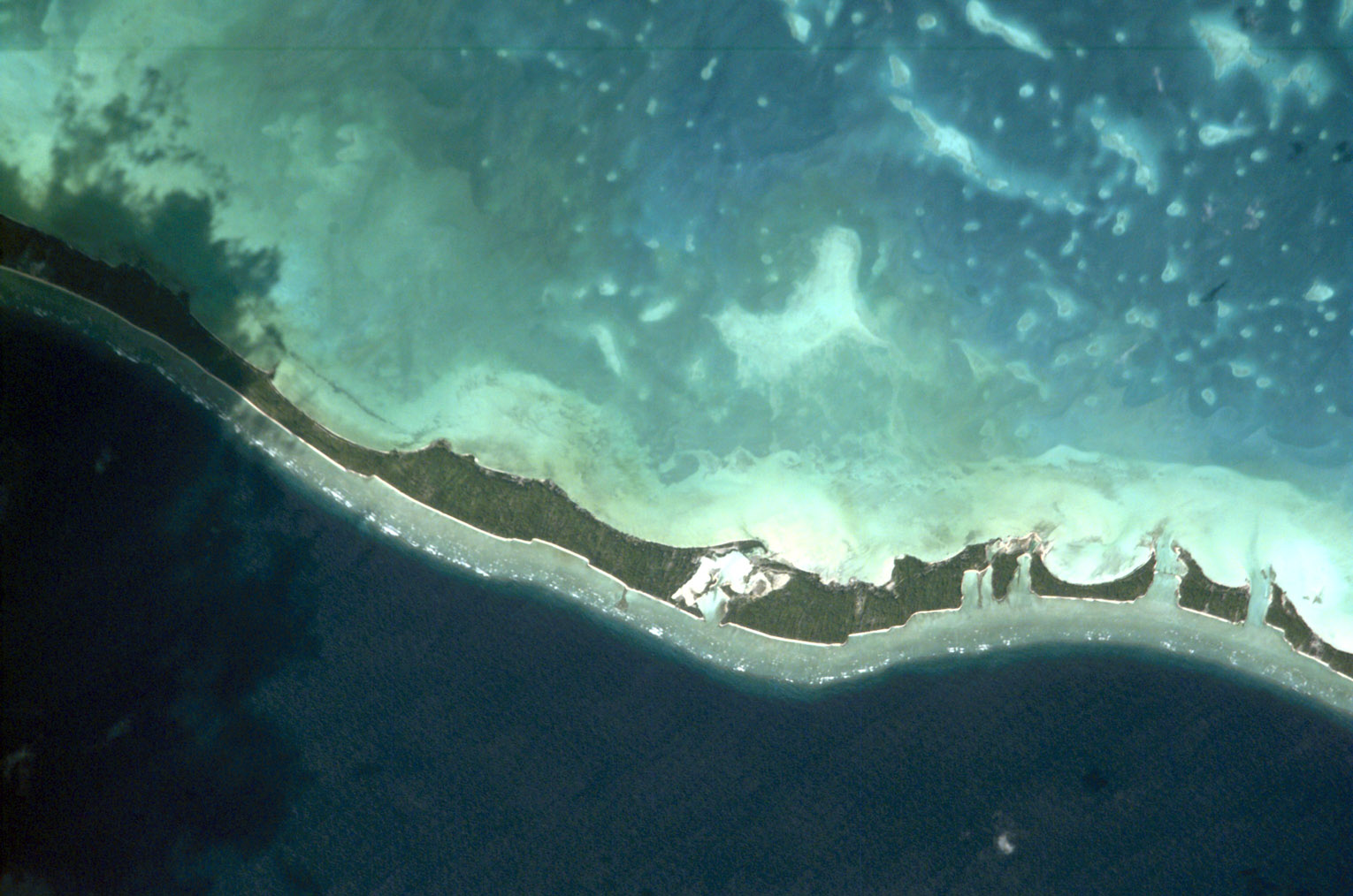 NASA astronaut image of eastern part of Nonouti Atoll, Gilbert Islands, Kiribati